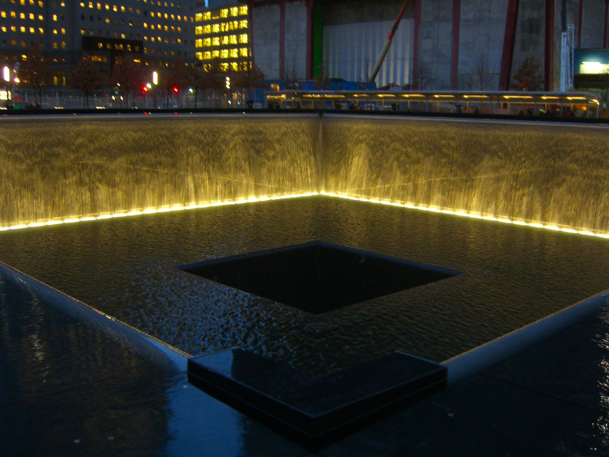 The North Pool of the National September 11 Memorial & Museum in Manhattan, as seen on December 6, 2011. This photo was created by Luigi Novi. If you have any questions, you can contact me by sending me an email or leaving a note at the bottom of my talk page.